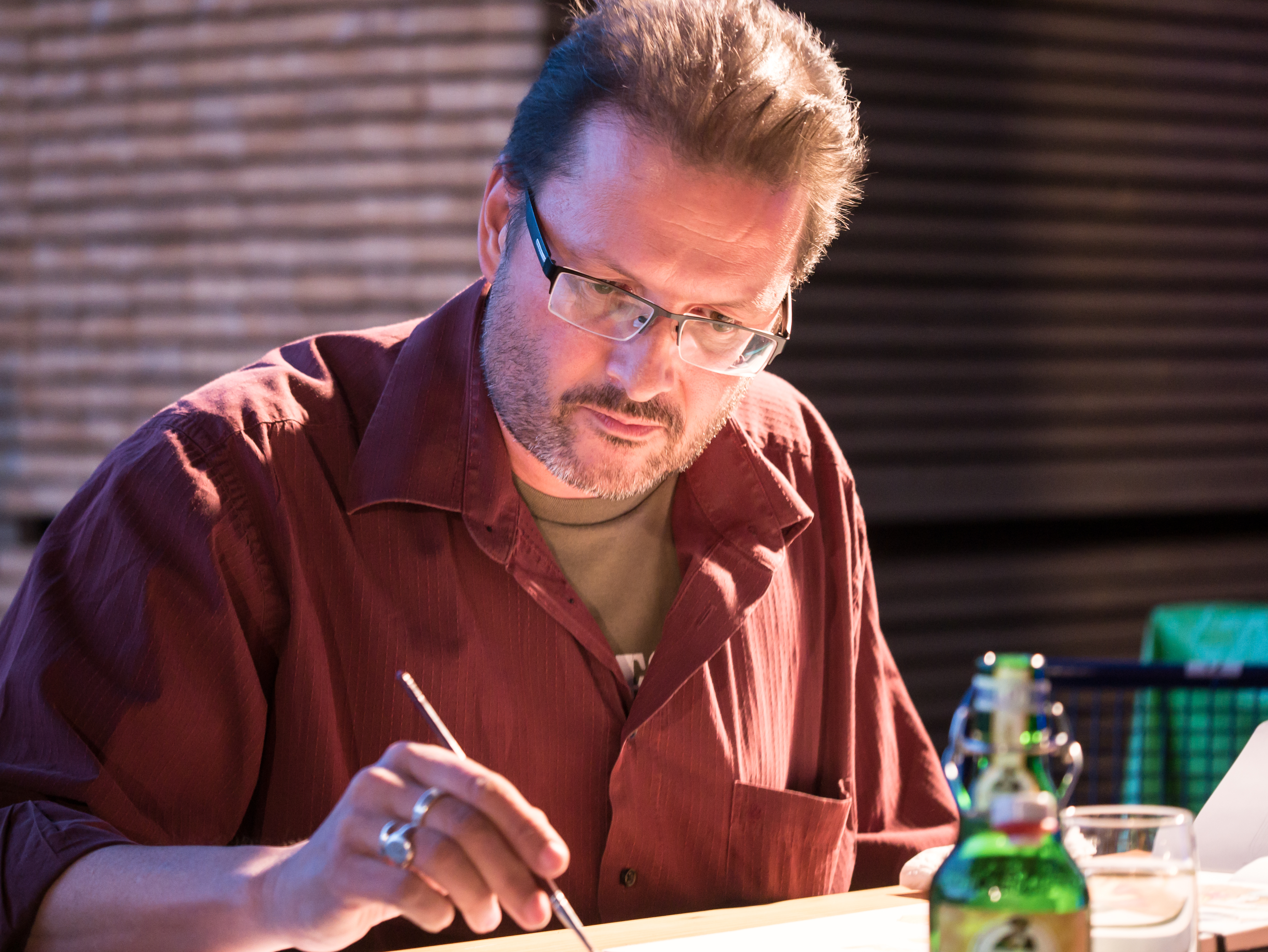 German illustrator Stefan Dinter at the Leselenz in Hausach